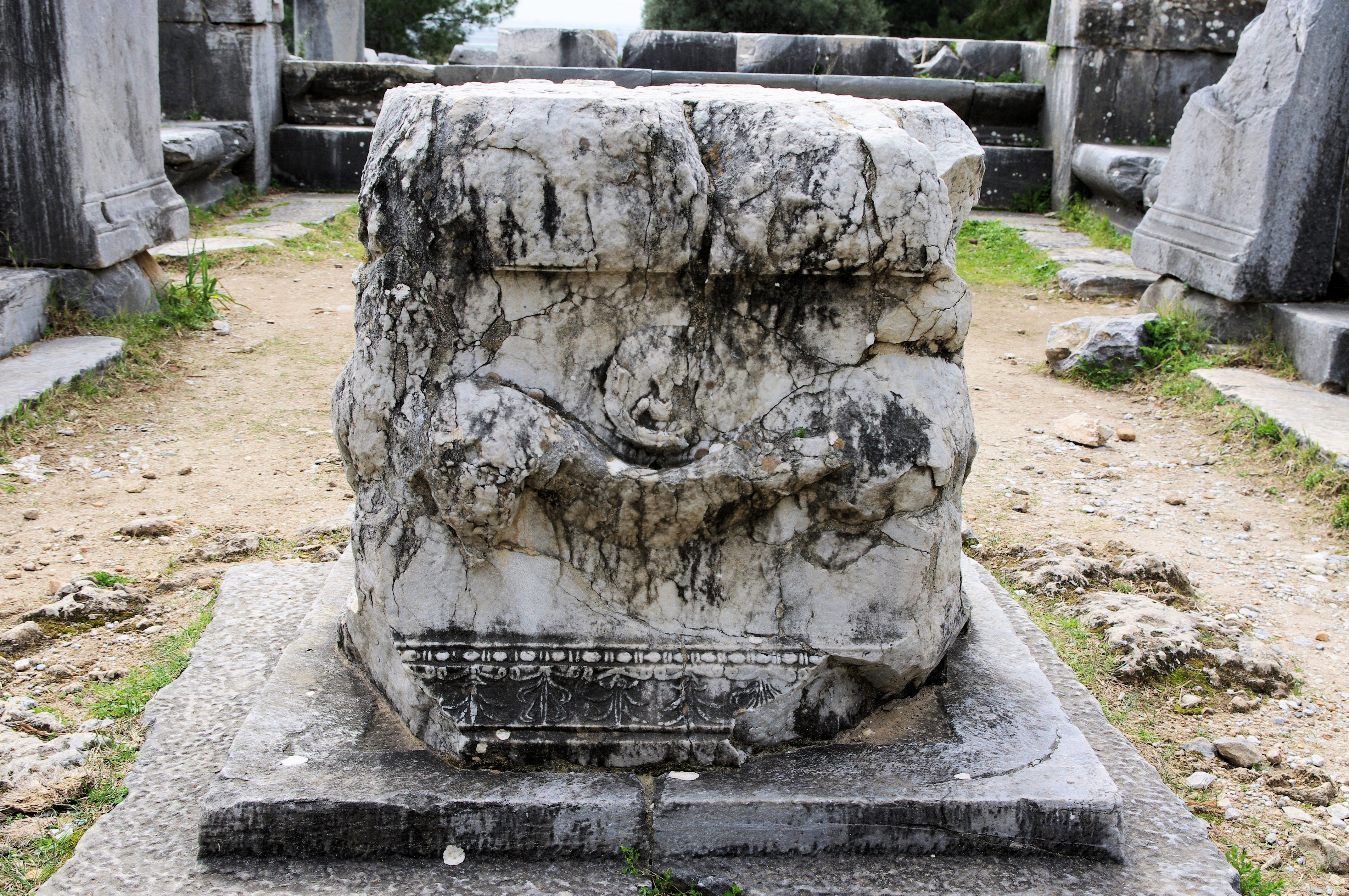 Altar of the Buleuterion of Priene. For over 1,000 years, this altar was used before every meeting of the city council of Priene to ask the gods of ancient Greece if they blessed the meeting about to take place. If the entrails of the animal sacrificed were not propitious, the meeting and all decisions had to be postponed until such time as the gods were satisfied.